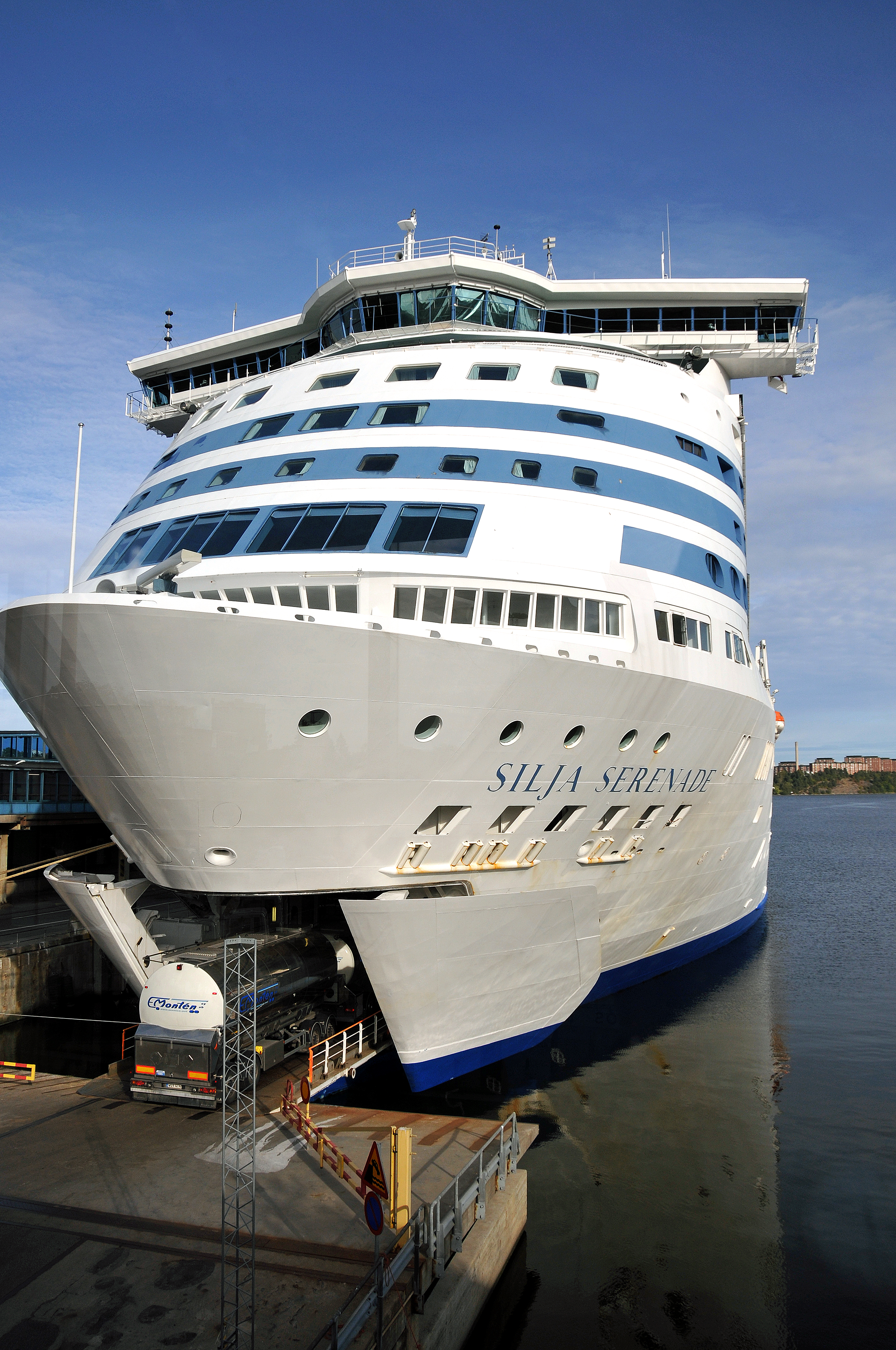 Silja Serenade - this is the ship used to go from Stockholm, Sweden to Helsinki, Finland. A cruise on this ship is like a city break in the Middle-Europe, walking on a shopping street! The heart of the ship is a pedestrian street Promenade where you can find a wide variety of shops, cafés and restaurants. Technical information Built: 1990 Built by: Masa Yards, Turku Length: 203m Breadth: 31.5m Draught: 7.1m Speed: 21 knots Passengers: 2,852 Cabins: 986 Passenger cars: 395